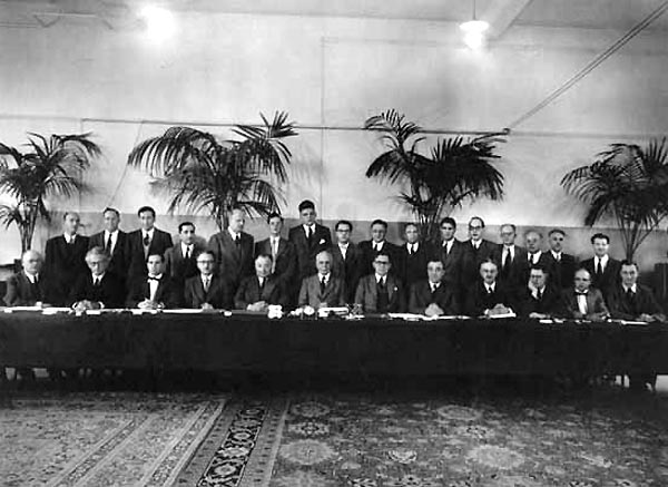 Participants of the 10th Solvay conference on physics 1954 in Brussels